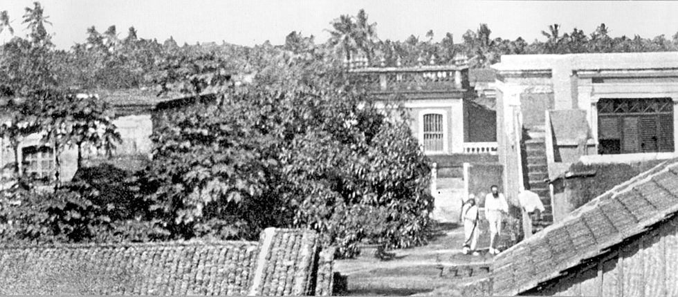 Mother with Pavitra on terrace of Old Secretariat